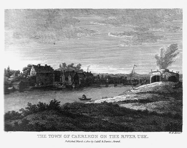 The Glamorgan-Gwent Archaeological Trust Ltd